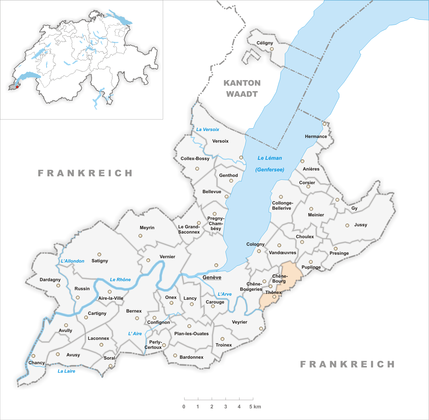 Municipality Thônex